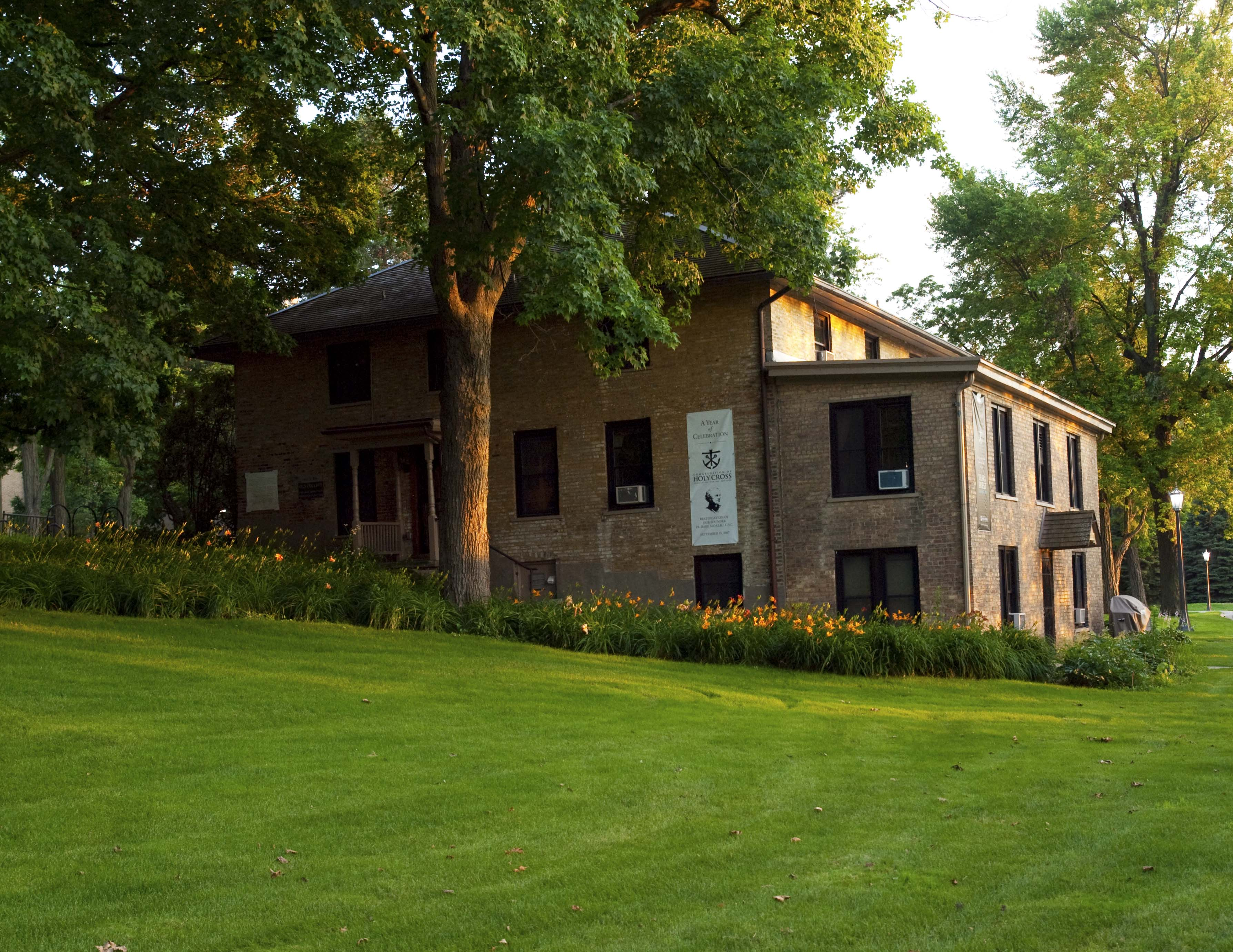 Photograph of the Old College on the campus of the University of Notre Dame. The "Old College," constructed in 1843, is the oldest extant structure on the campus.